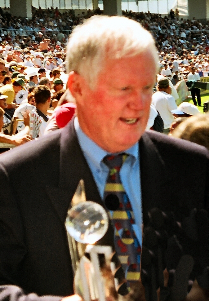 Graeme Pollock Photo by Paddy Briggs (Newlands January 2000)